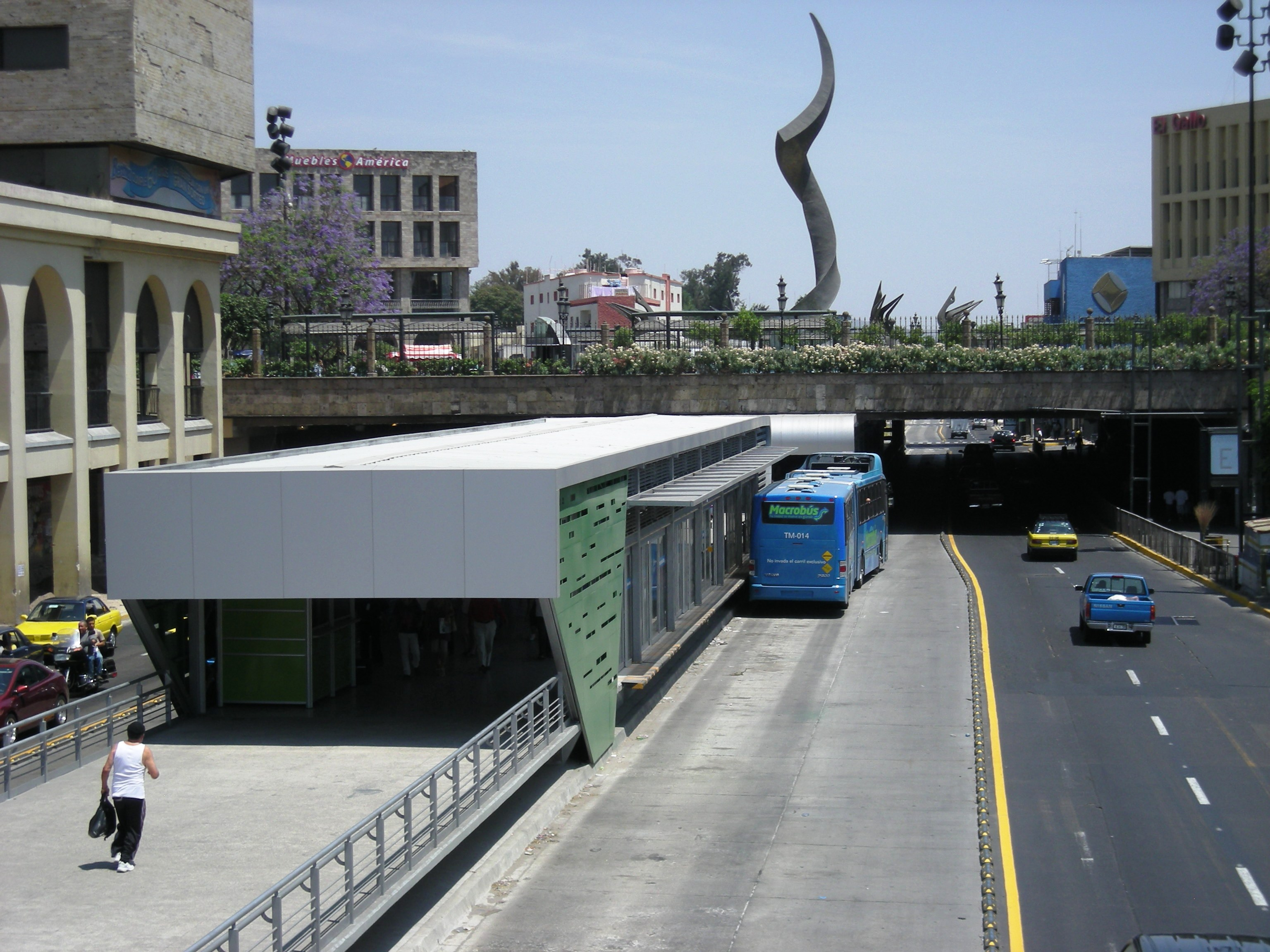 "Macrobus" station San Juan de Dios with fountain "Immolation of Quetzalcoatl" in the background in Guadalajara, Mexico